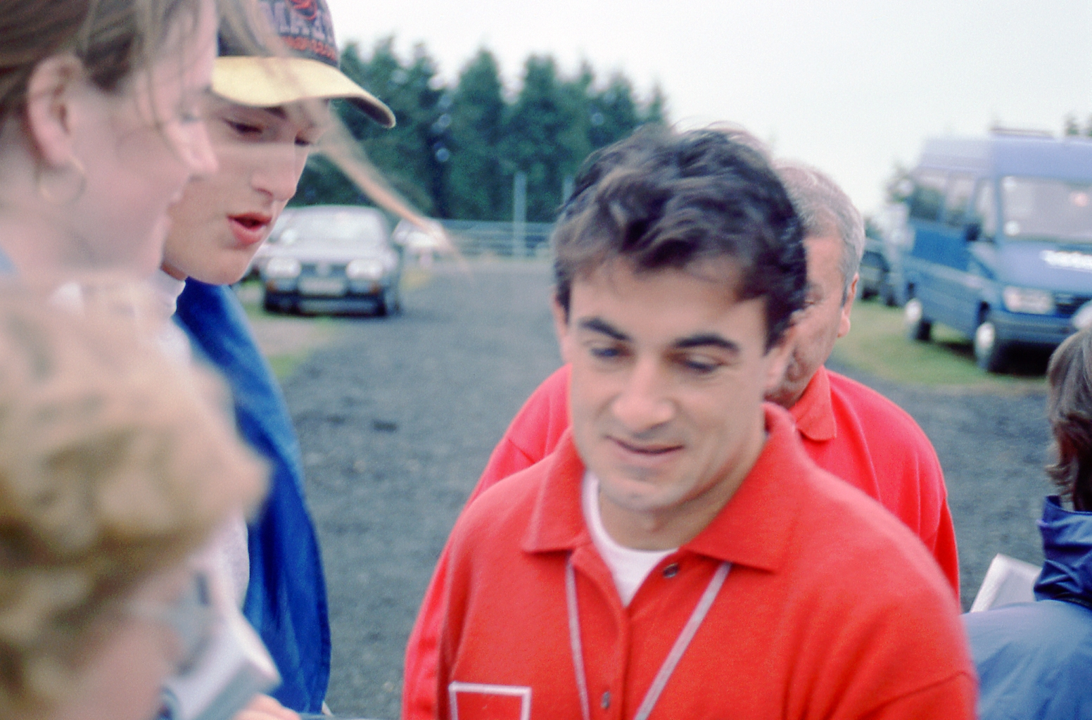 Jean Alesi at the 1995 British Grand Prix